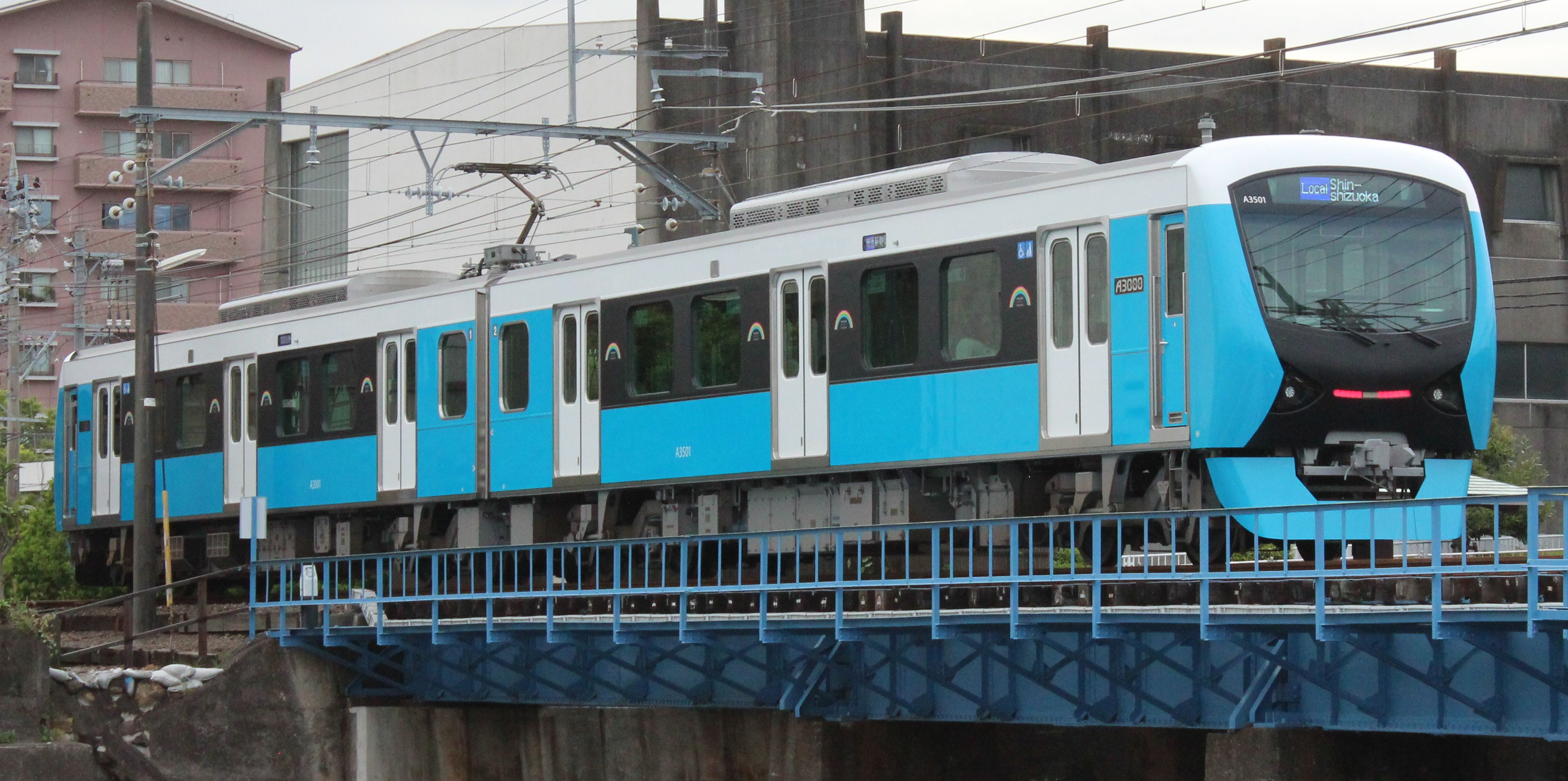 Shizuoka Railway A3000 series EMU set A3001